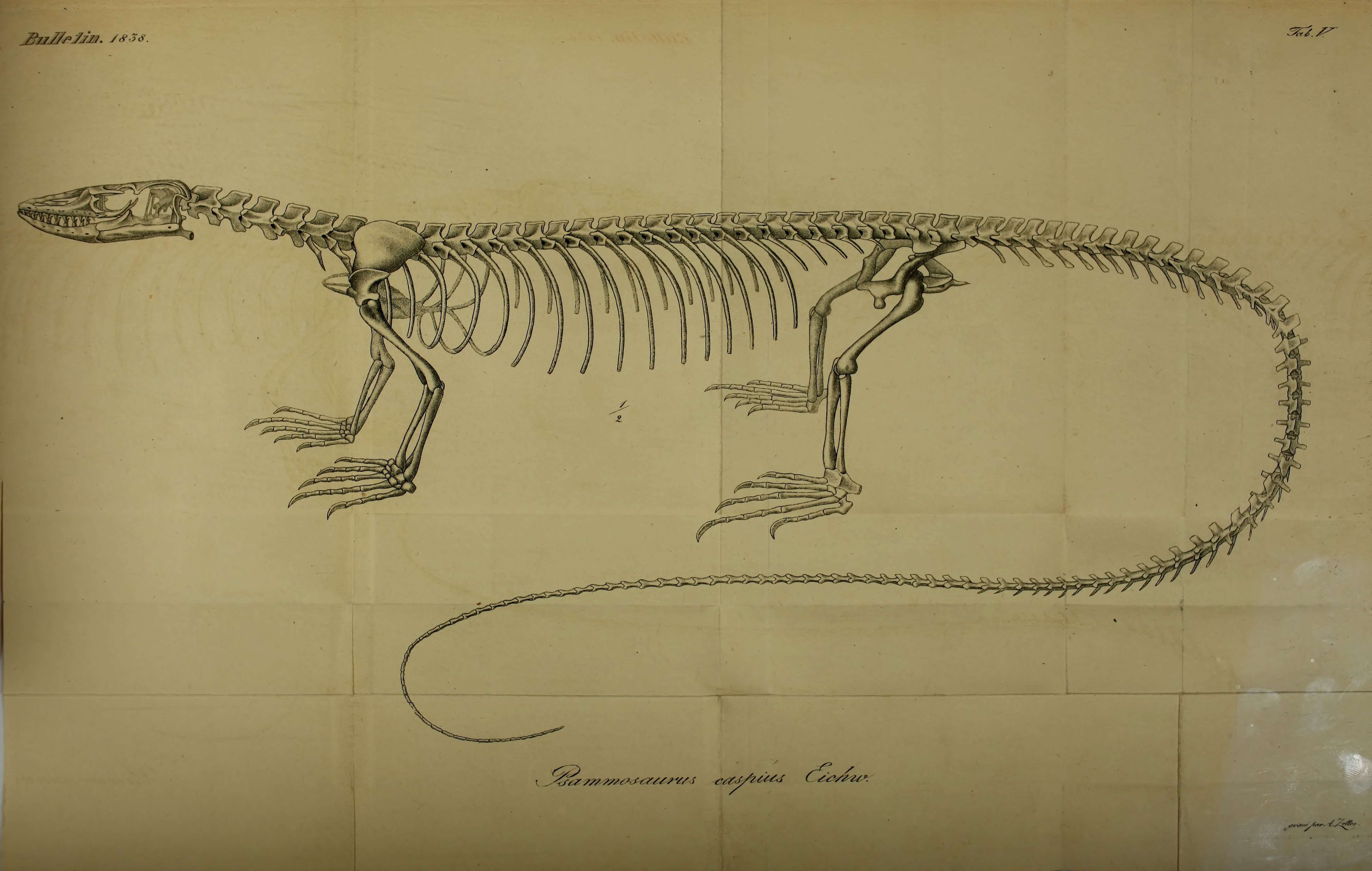 Title: Bulletin de la Société Impériale des Naturalistes de Moscou Year: 1838 (1830s) Authors: Moskovskoe obshchestvo liubitelei prirody Subjects: Publisher: Text Appearing Before Image: ' Text Appearing After Image: '